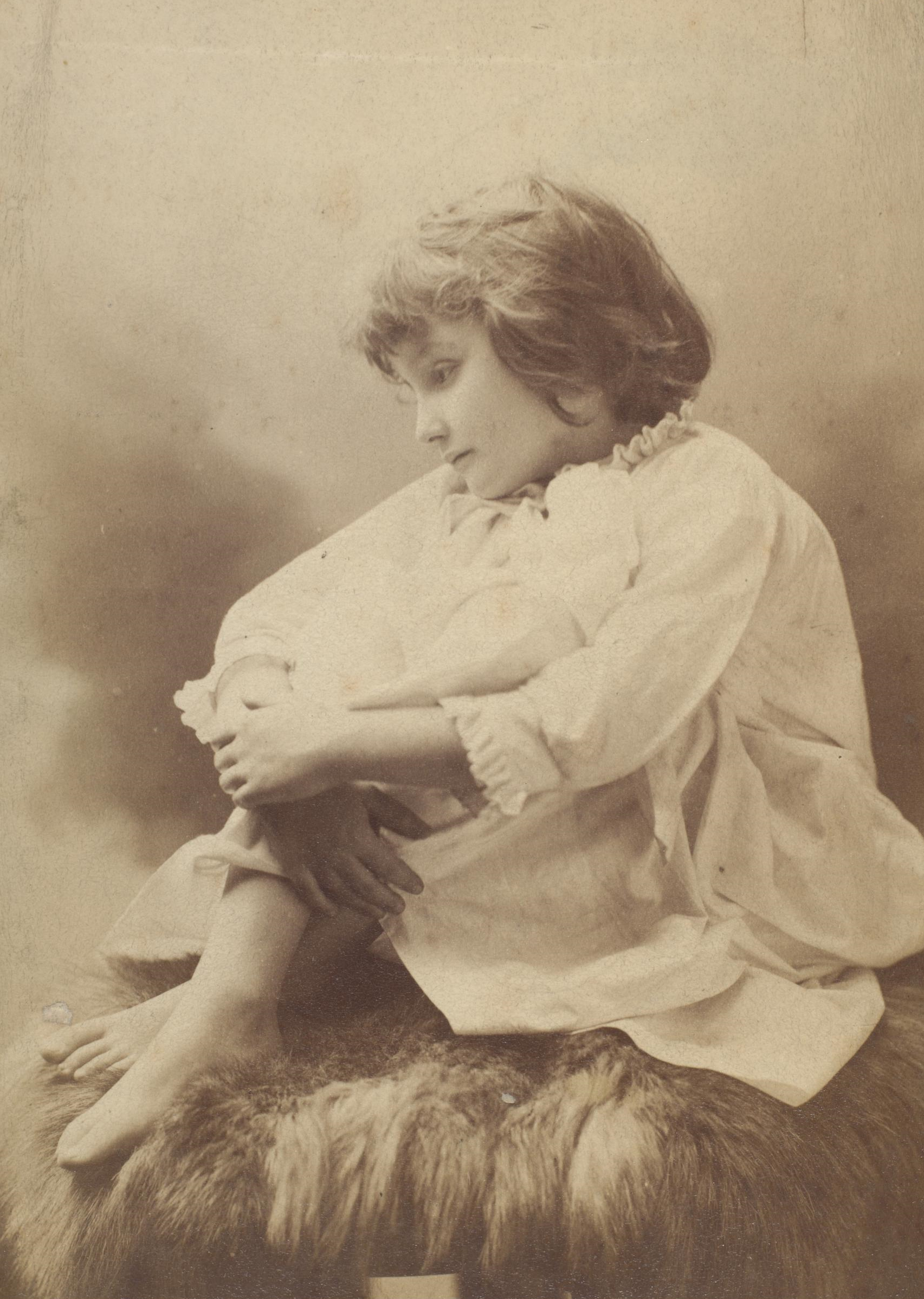 Object: Photograph Place of origin: Great Britain (photographed) Date: 19th Century (photographed) Artist/Maker: Unknown (photographers) Materials and Techniques: Sepia photograph on paper Credit Line: Bequeathed by Guy Little V&A's collections. Museum number: S.133:686-2007 Gallery location: In Storage